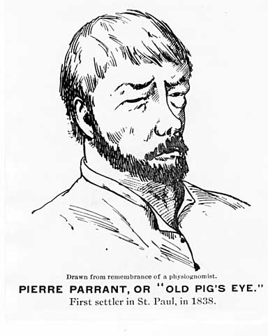 Pierre "pig's eye" parrant, first settler in St. Paul, MN From Minnesota Historical Society' art and photograph database Used for wikipedia page on Pierre Parrant First published prior to 1923